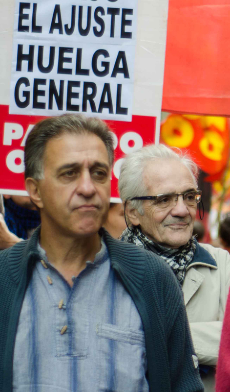 Pitrola Partido Obrero